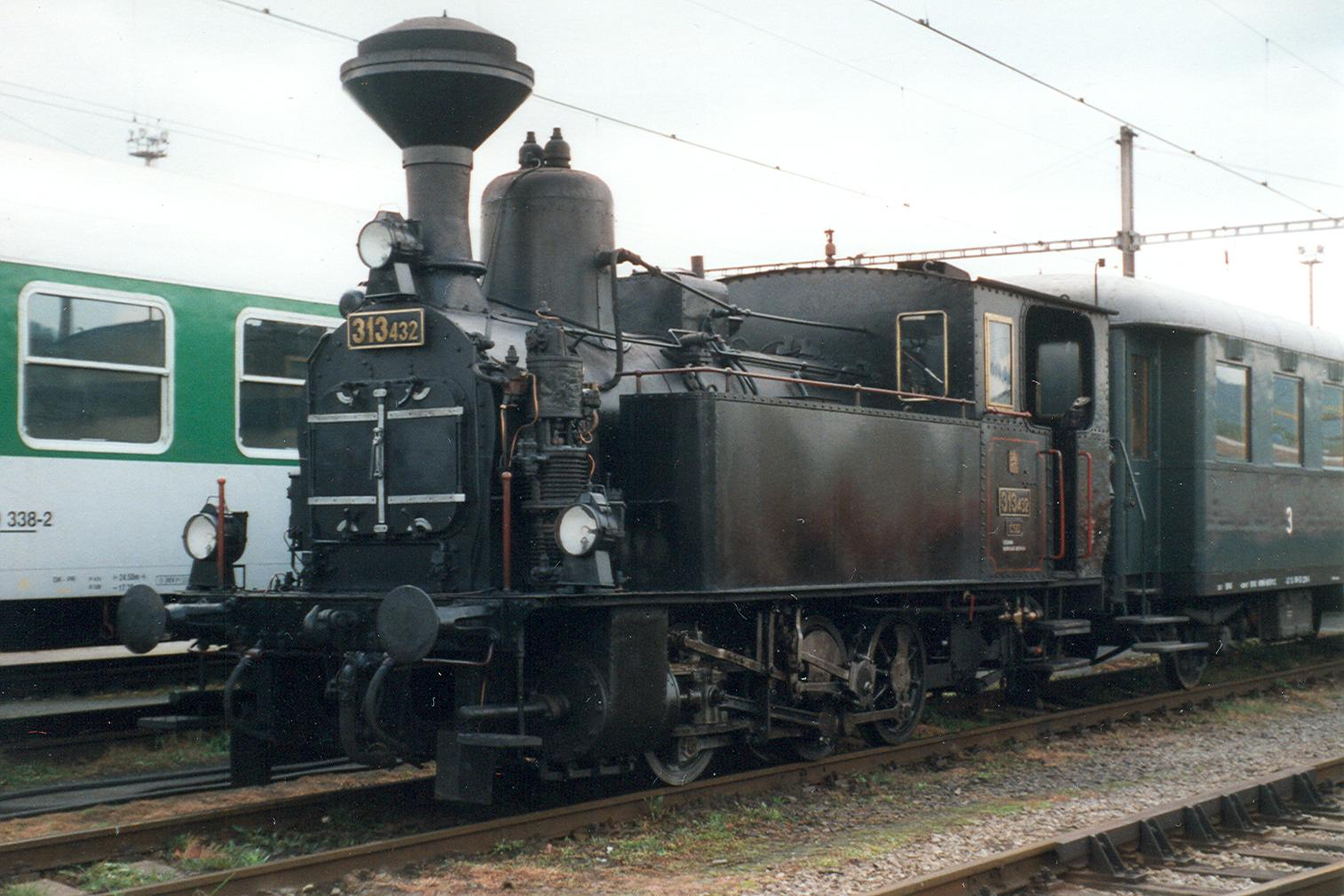 Steam locomotive 313.432 in Děčín hl.n, Czech Republic